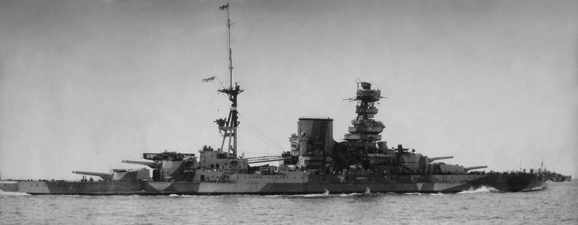 HMS Barham, Queen Elizabeth Class battleship in Mediterranean, early 1940s